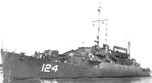 The U.S. Navy high-speed transport USS Horace A. Bass (APD-124), circa in 1945.